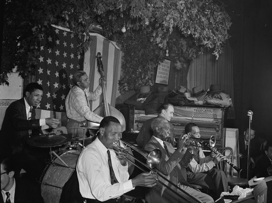 Bunk Johnson (trumpet), George Lewis (clarinet), Alcide Pavageau (string bass), Kaiser Marshall (drums), Jim Robinson (trombone), and Don Ewell (piano), Stuyvesant Casino, New York, N.Y., ca. June 1946 (Photograph by William P. Gottlieb)